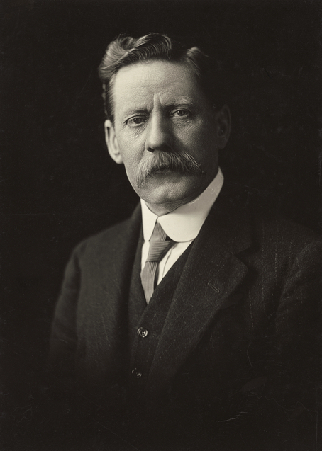 Australian politician Edward Millen